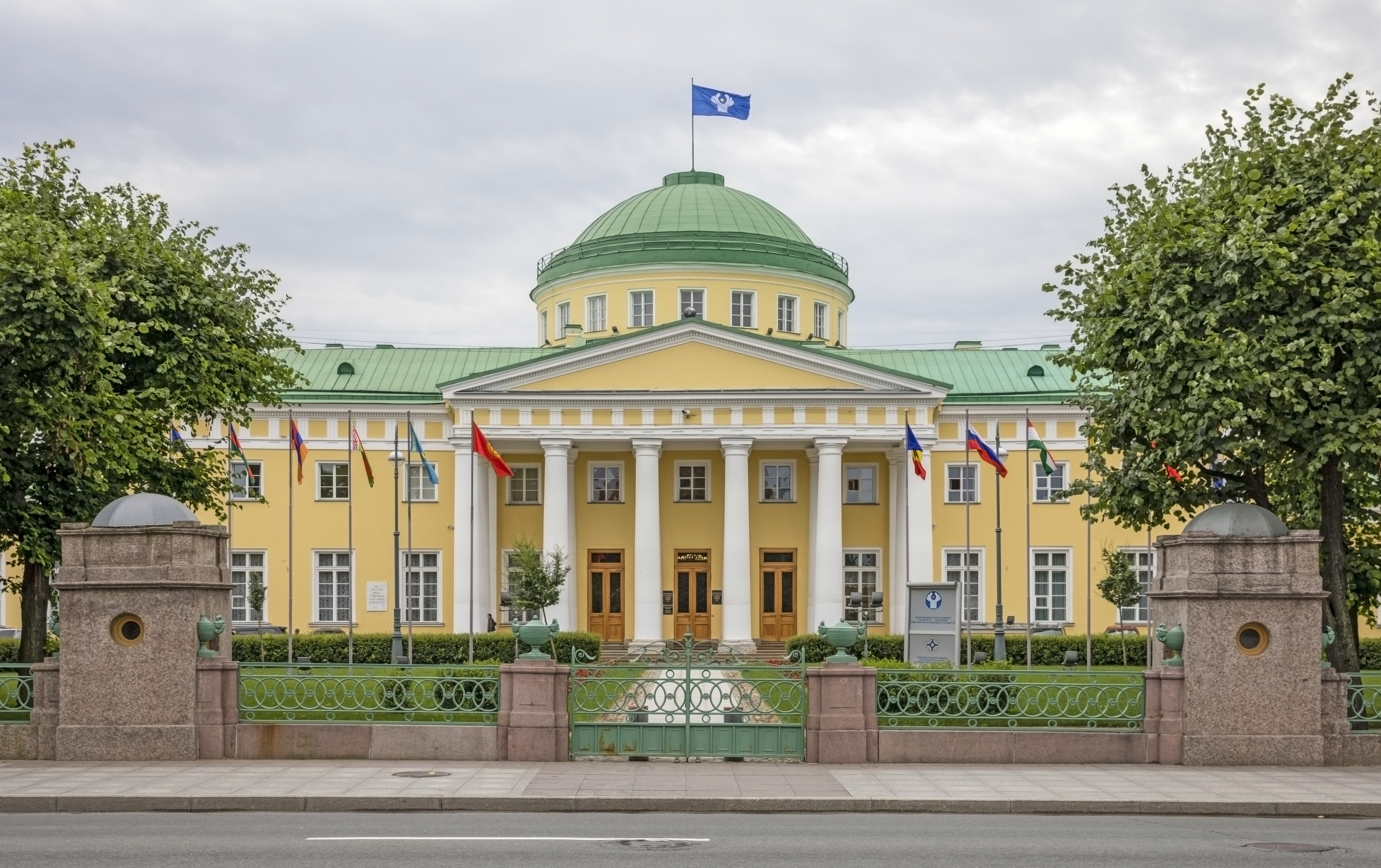 Tauride Palace in Saint Petersburg, Russia.